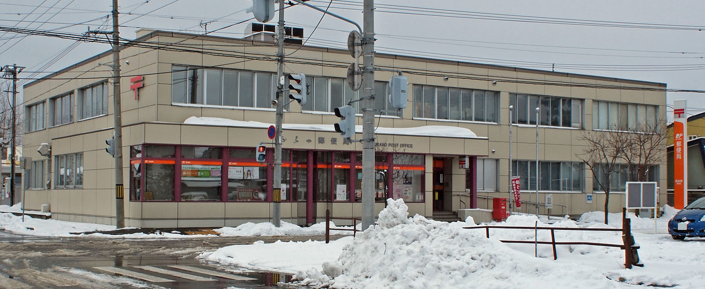 Furano post office, Furano, Hokkaido, Japan